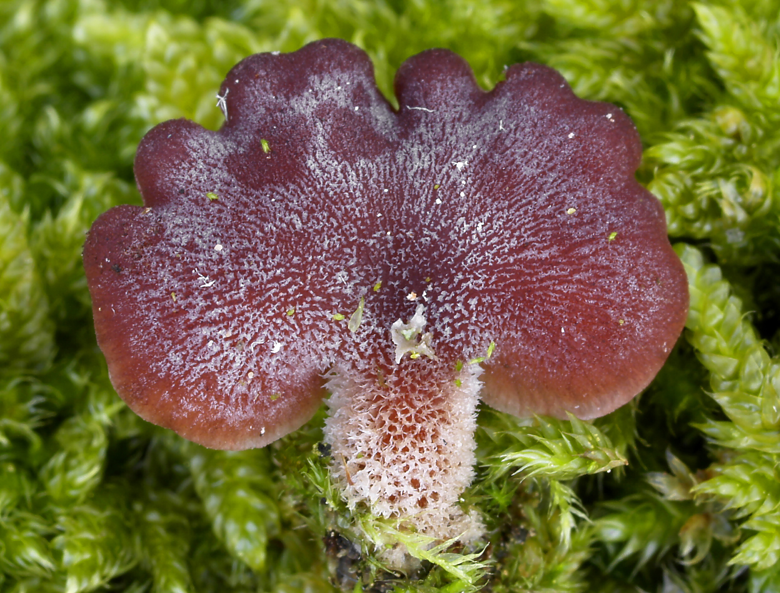 Panellus violaceofulvus